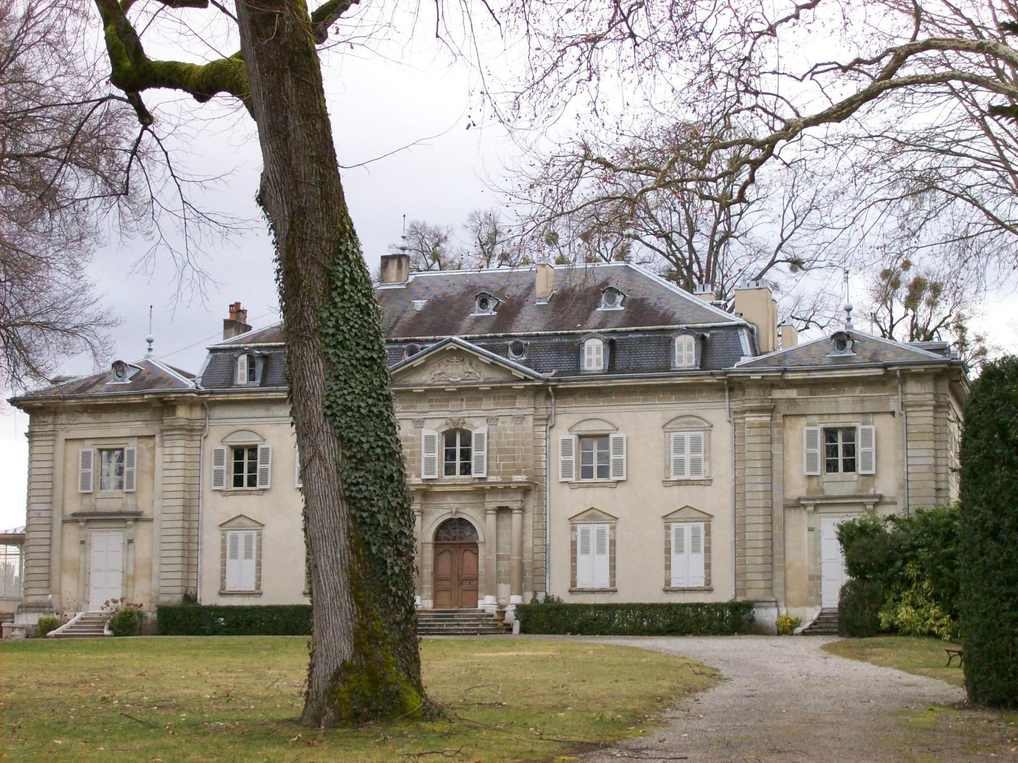 Le chateau de Voltaire, Ferney-Voltaire